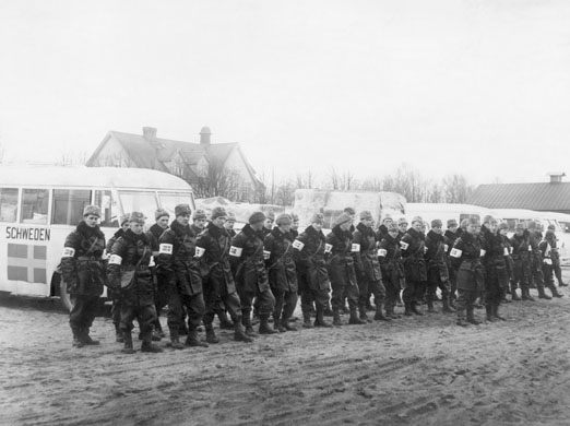 Swedish Red Cross Buses with their drivers during the end of World War II during the White Buses.